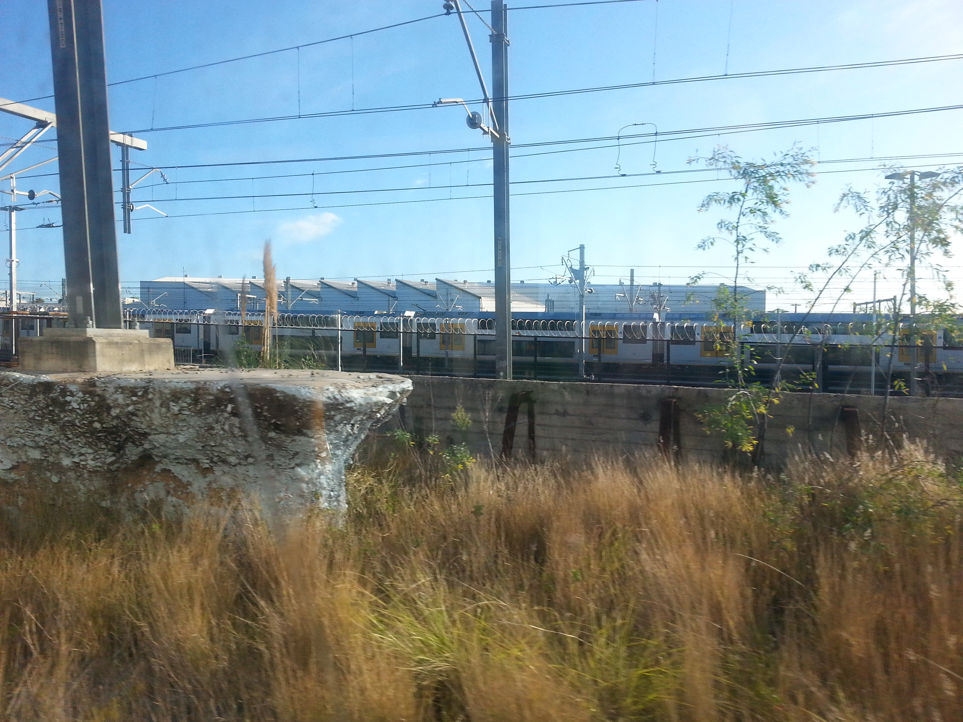 A picture of the rubble that remains of the Clyburn railway station.